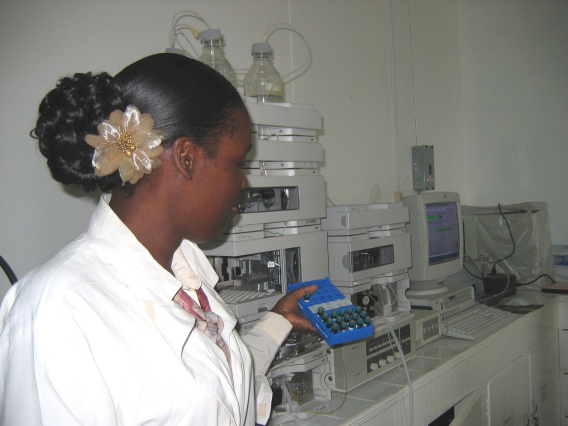 A technician at the Guyana Food and Drug Department Lab in Georgetown, Guyana selects samples to be tested with new equipment.